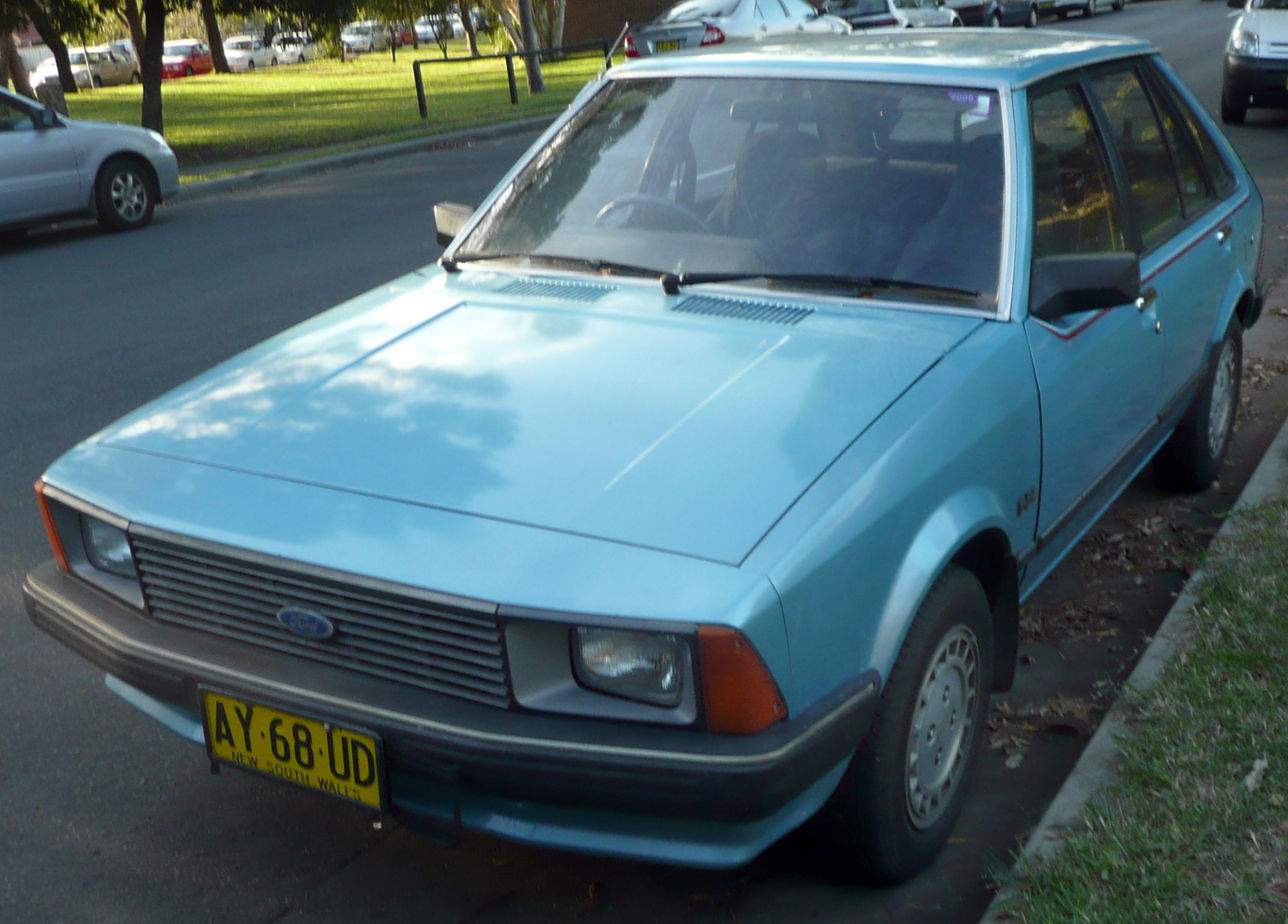 1981 Ford Laser (KA) GL 5-door hatchback. Photographed in Sutherland, New South Wales, Australia.